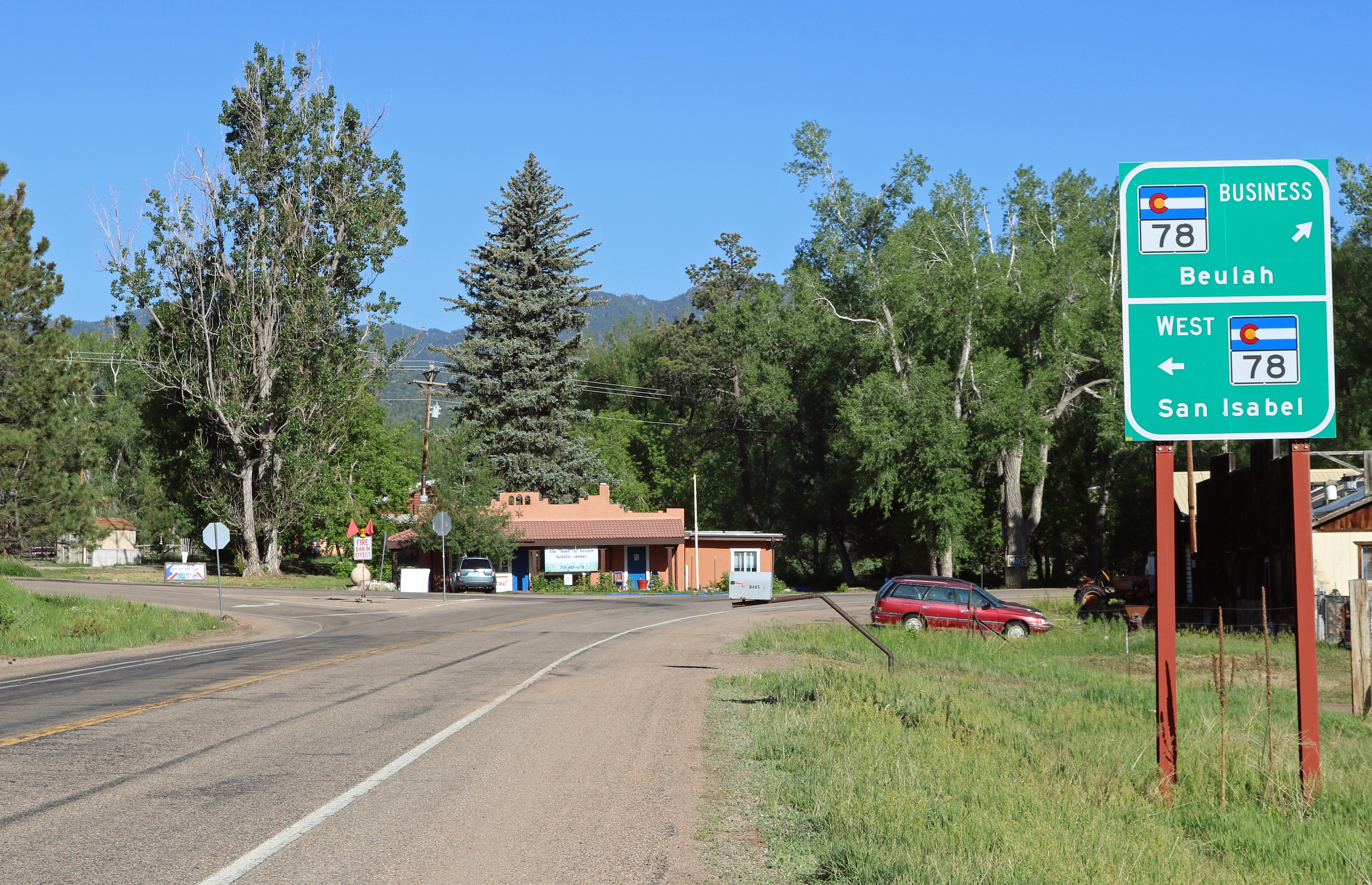 A view of Colorado State Highway 78 on the east side of Beulah Valley, Colorado as the highway splits into its main and business routes.